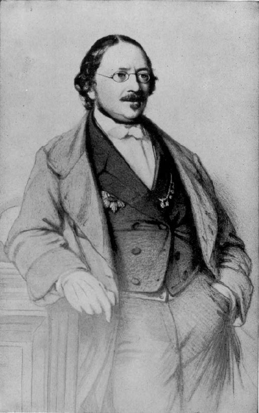 Litho of Edouard Blondeel van Cuelebroeck by J. Schubert (KBR Print Room)